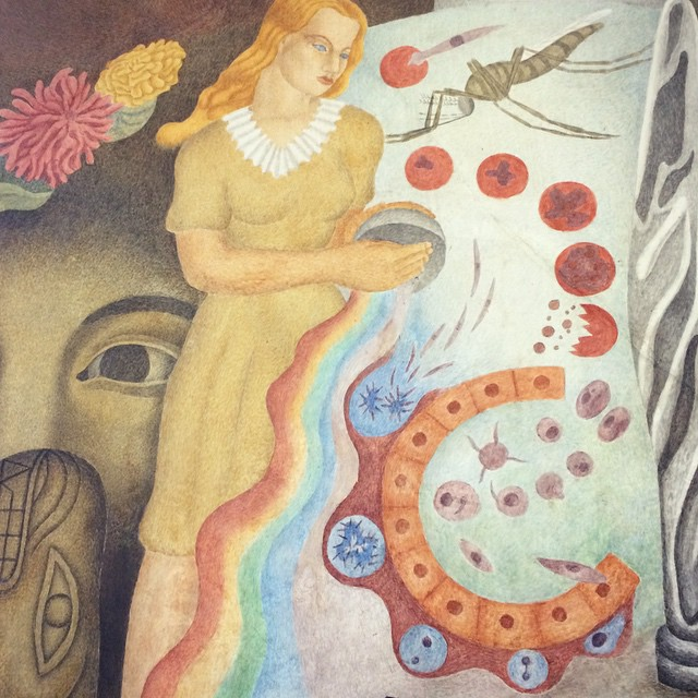 two 12′ x 8′ tempera frescos painted by Frederick E. Olmsted Jr. in 1941 and restored in 2002, New Deal Agencies: Federal Art Project (FAP) More information at The Living New Deal